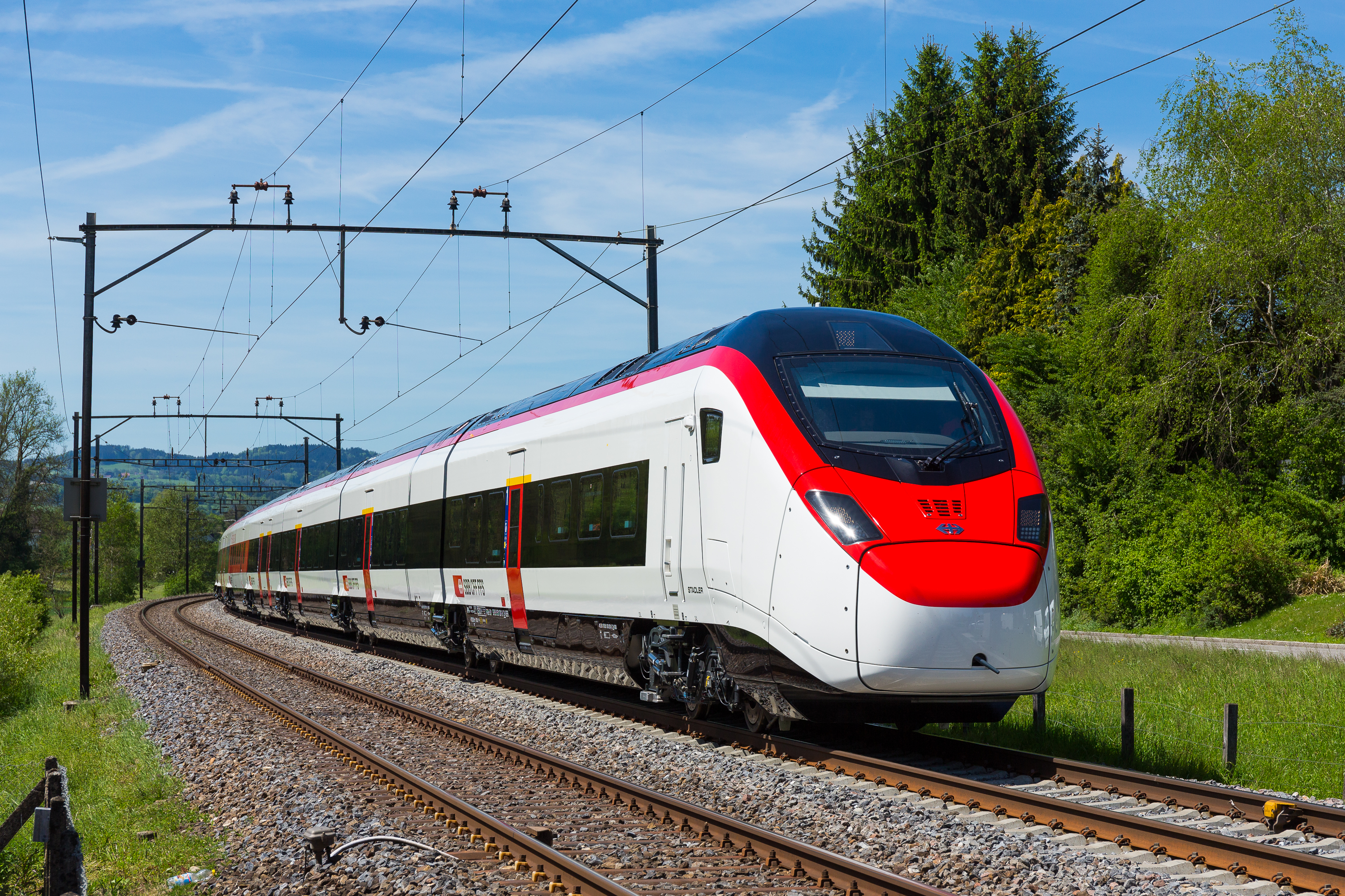 EC250 "Giruno" on test run between Erlen and Romanshorn